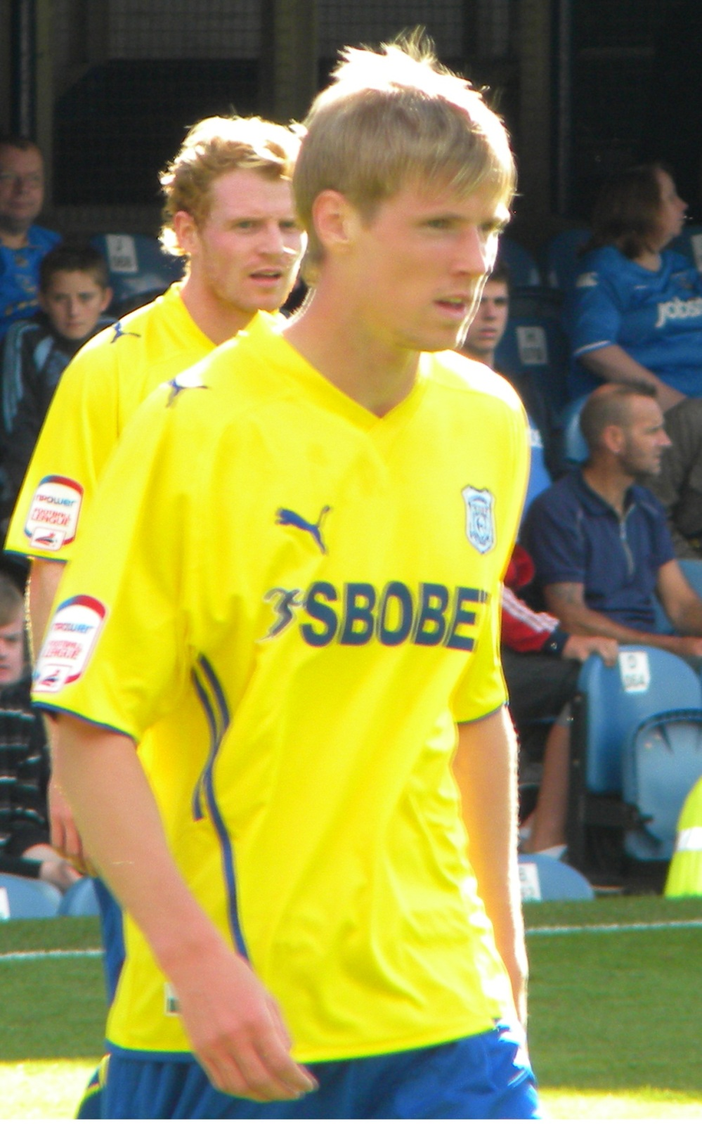 Picture of Cardiff City Loanee Andy Keogh playing for Cardiff against Porstmouth.